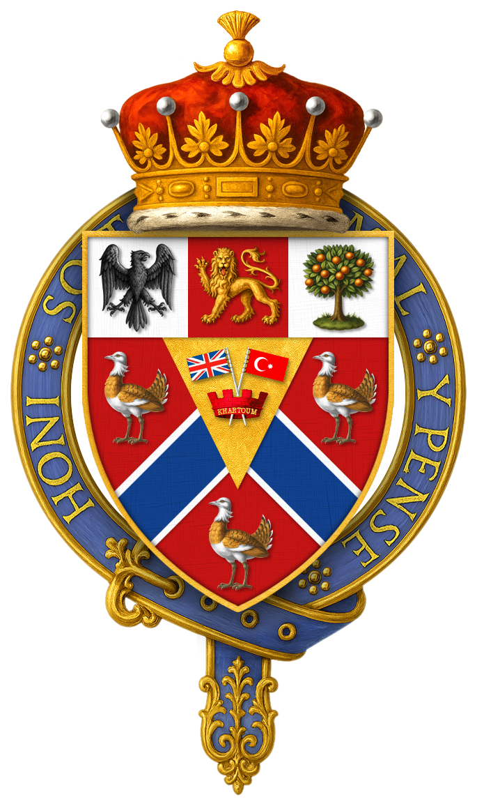 Garter-encircled shield of arms of Herbert Kitchener, 1st Earl Kitchener, KG, as displayed on his Order of the Garter stall plate in St. George's Chapel.